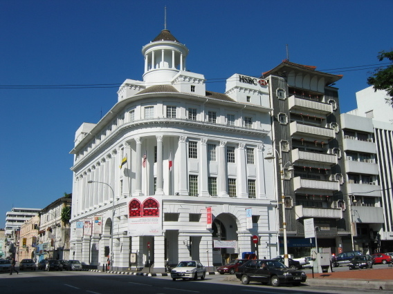 The HSBC Building in Ipoh, Malaysia. User:Adiyon84, the creator of the image, originally wrote in its description the following: "The top facades of the HSBC Building and the Perak Chinese Chamber of Commerce Building side by side, showing the contrast of Western & Chinese styles of architecture".